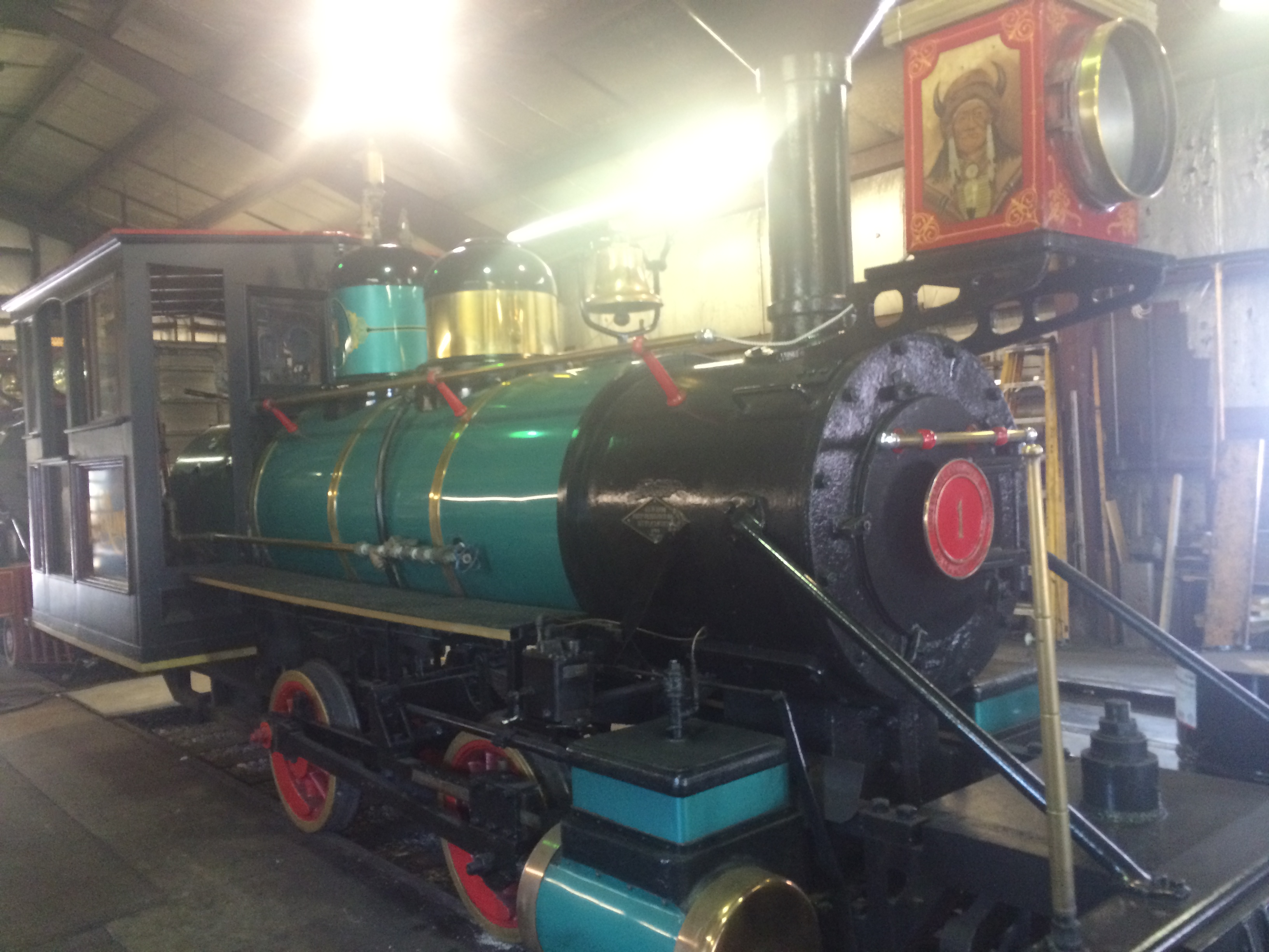 Cedar Point and Lake Erie Rail Road G.A Boeckling steam locomotive